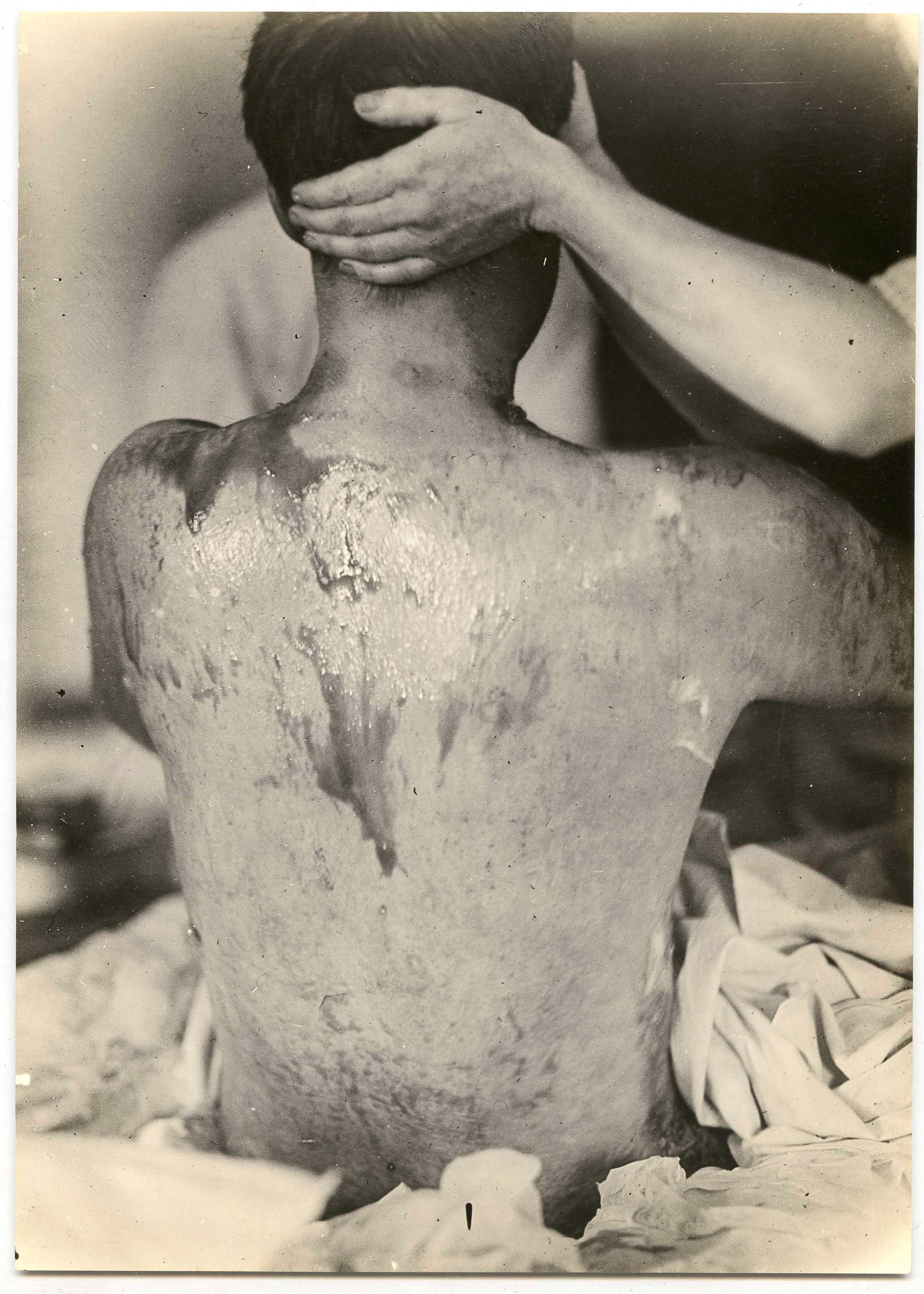 Mustard-gas lesions of back at one week. Warthin. Chapter XVII [17] Figure 147, Figure 43, Z5268 198a, 181 ; [Clinical photo.] [Gases, Asphyxiating and poisonous. Chemical warfare.] ref 011876 Figure 152.